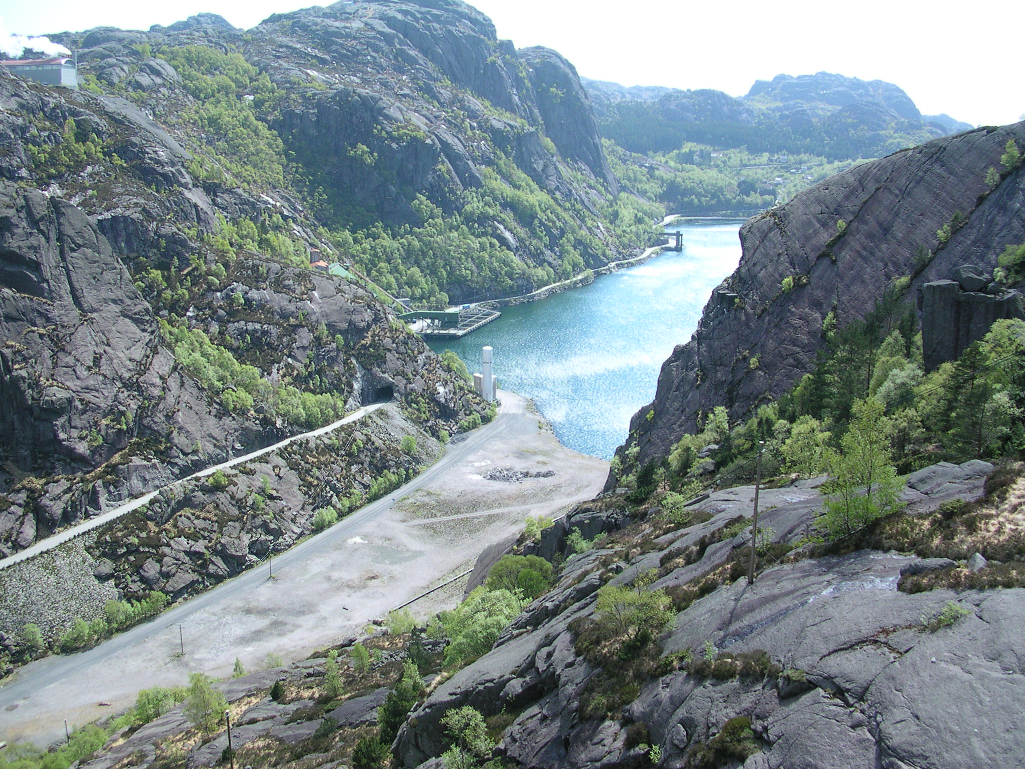 Overview over the fjord Jøssingfjord in Norway.